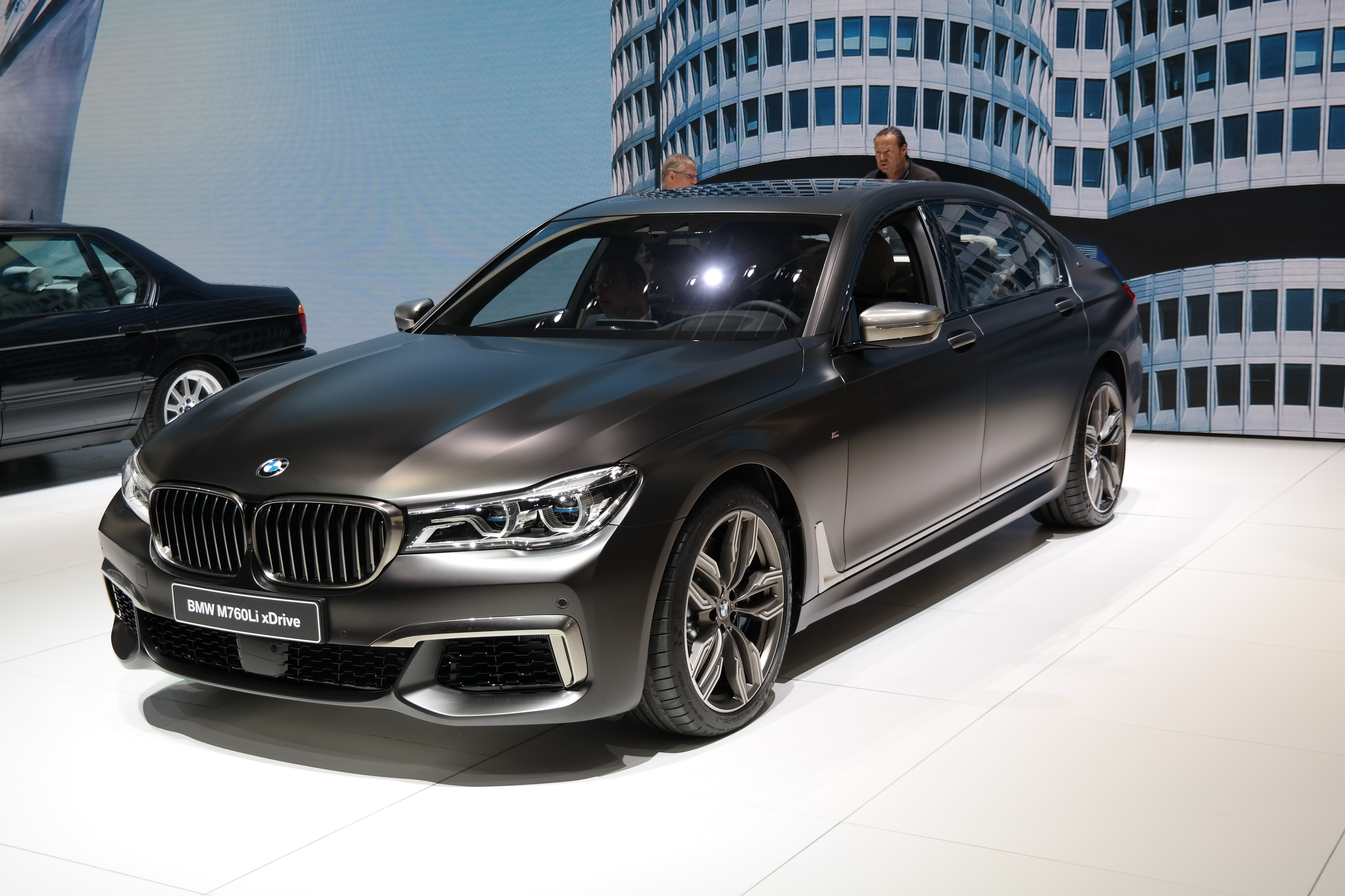 Geneva Motor Show 2016 (photo taken on the first press day)